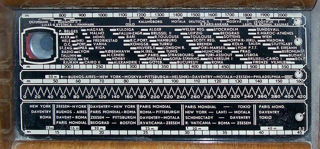 radio receiver scale with magic eye (EM11 or comparable, manufacturing year 1938 or later